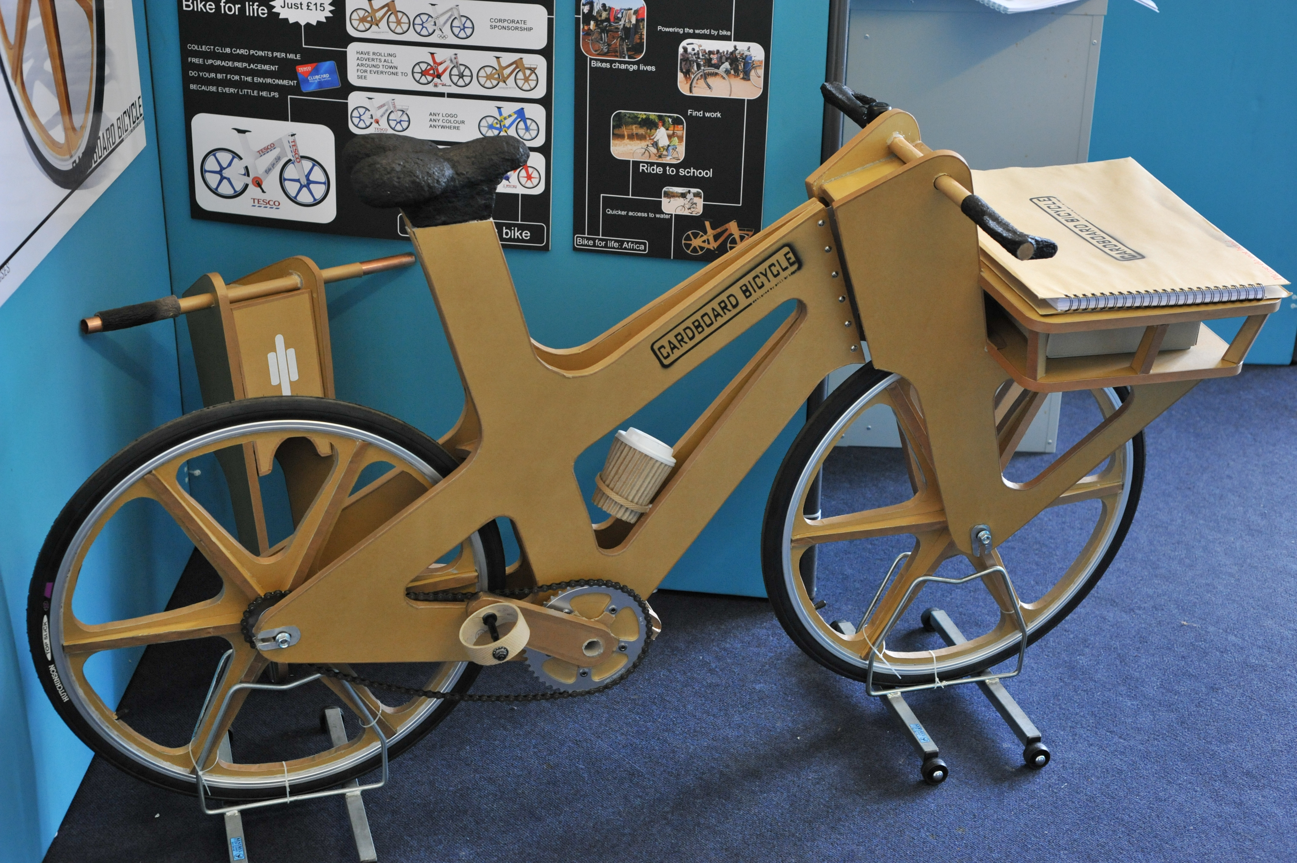 Cardboard Bicycle cardboard bicycle concept design Sheffield Hallam University, Psalter Lane Campus, Industrial Design Degree Show 2008 Open Day